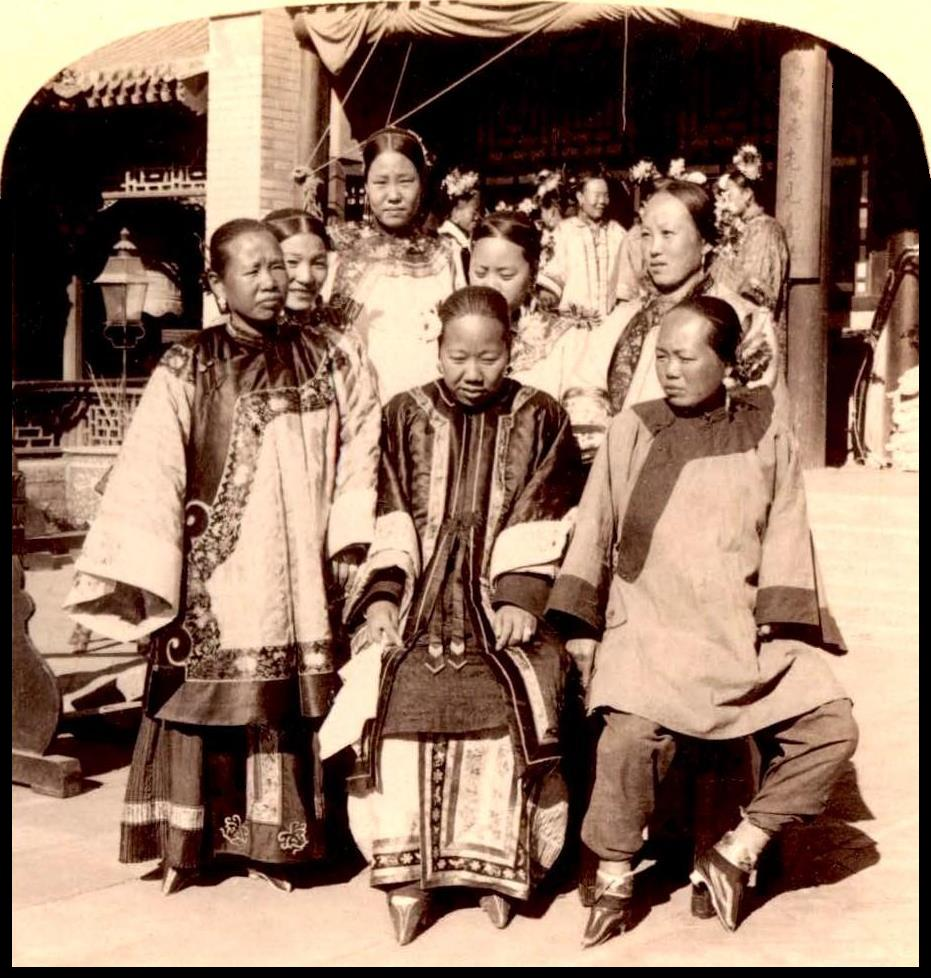 In Beijing in 1900 in the courtyard of a wealthy home. Photographed by James Ricalton in 1900 while he was in China covering the Boxer Rebellion for the American stereoview publisher Underwood & Underwood. :*Commentary is at the following Source page.